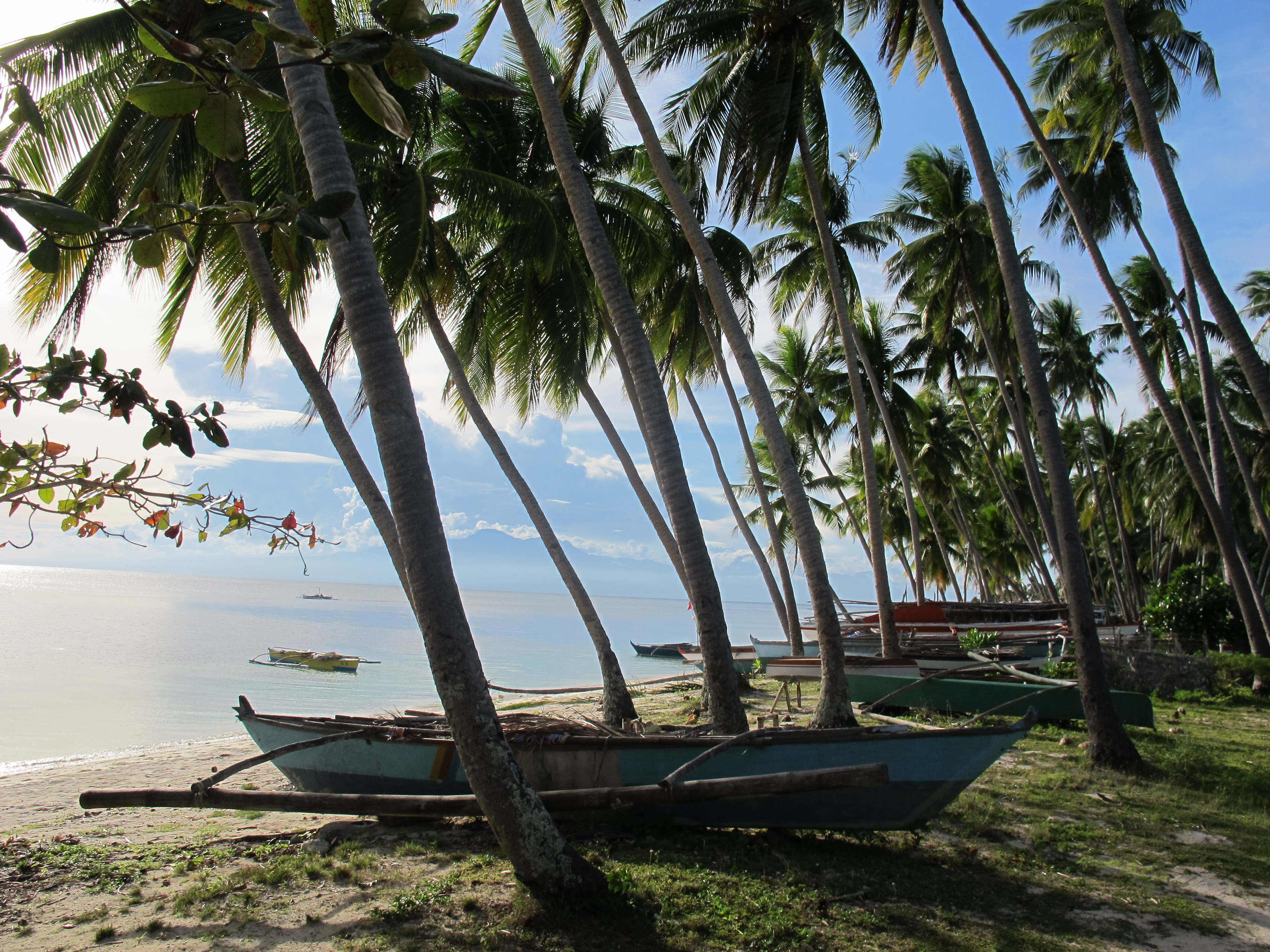 Water clear as glass - the white-sand beach with dozens of palm trees